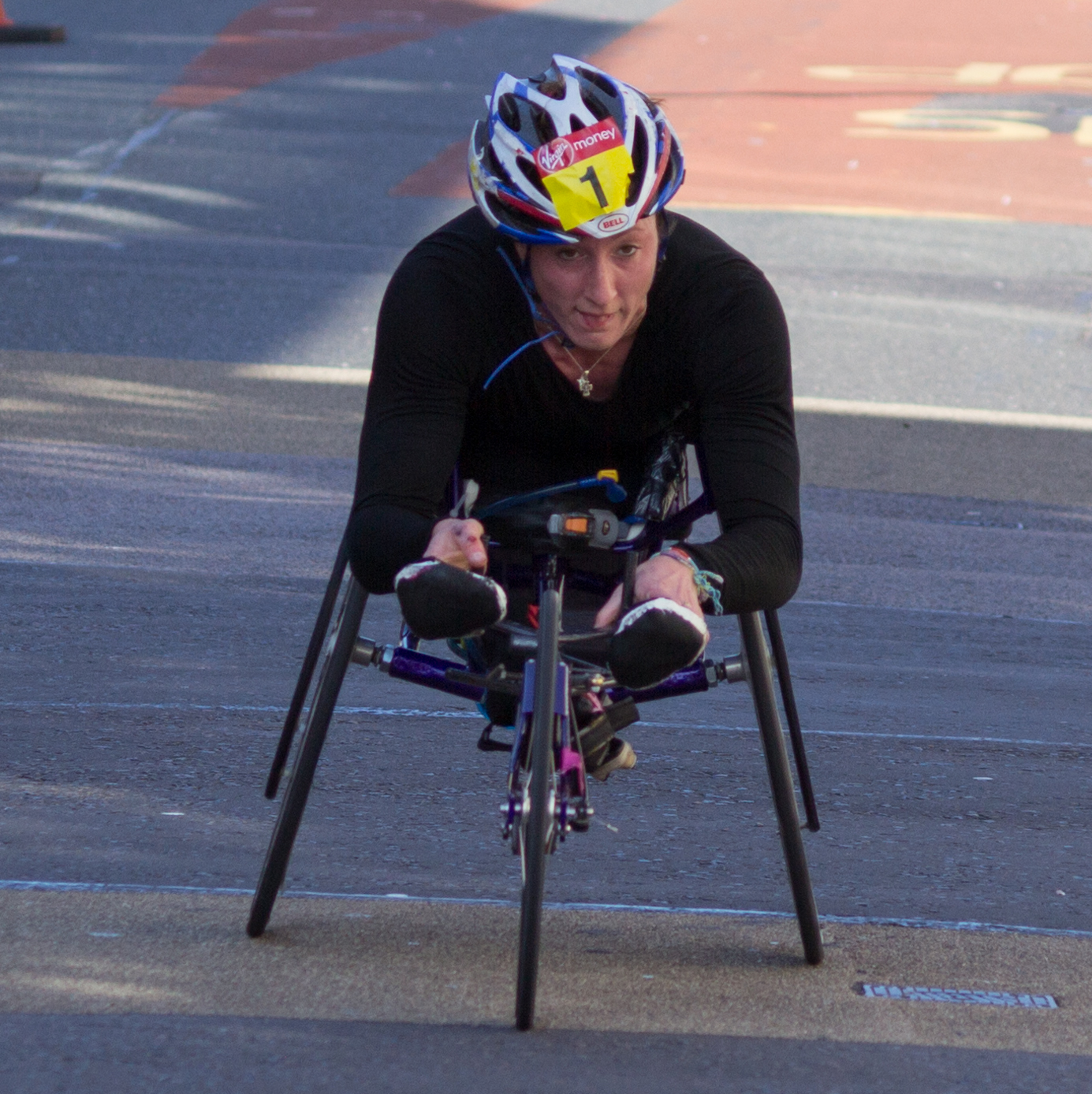 The 2014 London Marathon - Wheelchair - Tatyana McFadden, winner of the women wheelchair race.